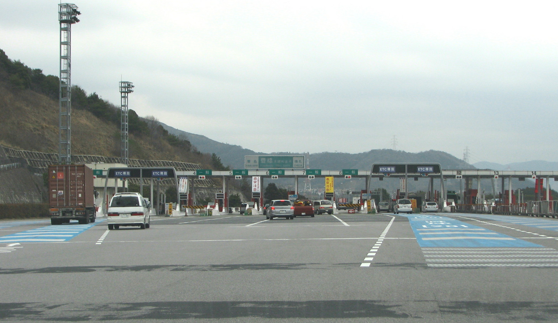 Toyohashi Tollgate (For Shizuoka and Tokyo)